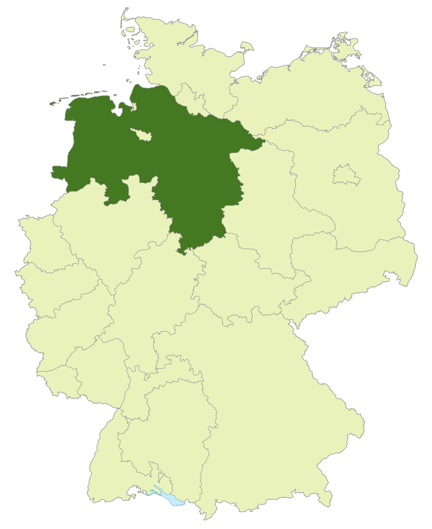 Map of regional soccer association Niedersachsen, Germany